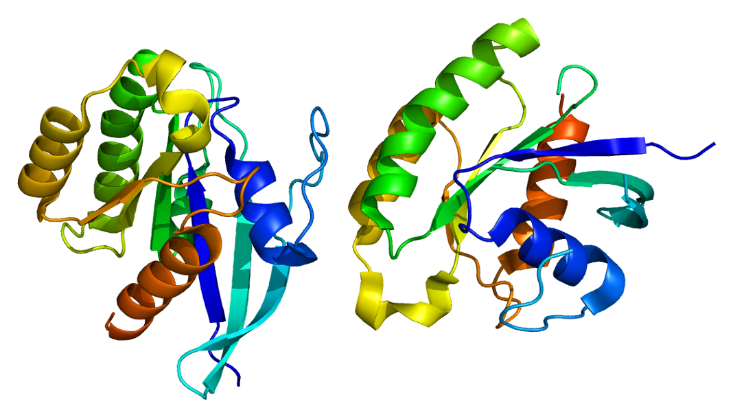 Structure of the RALA protein. Based on PyMOL rendering of PDB 1u8y.